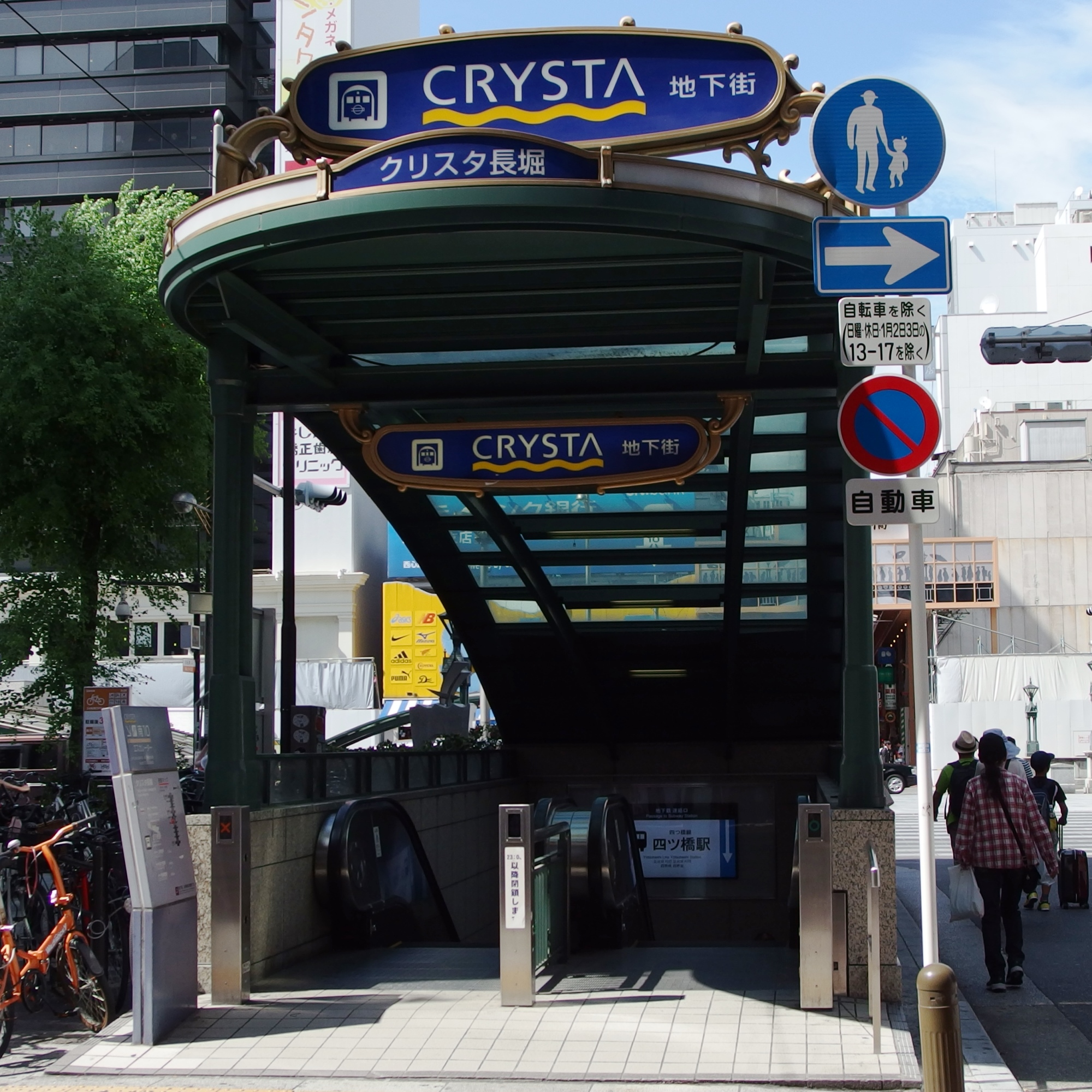 Crysta_Nagahori, Osaka, Osaka Prefecture, Japan